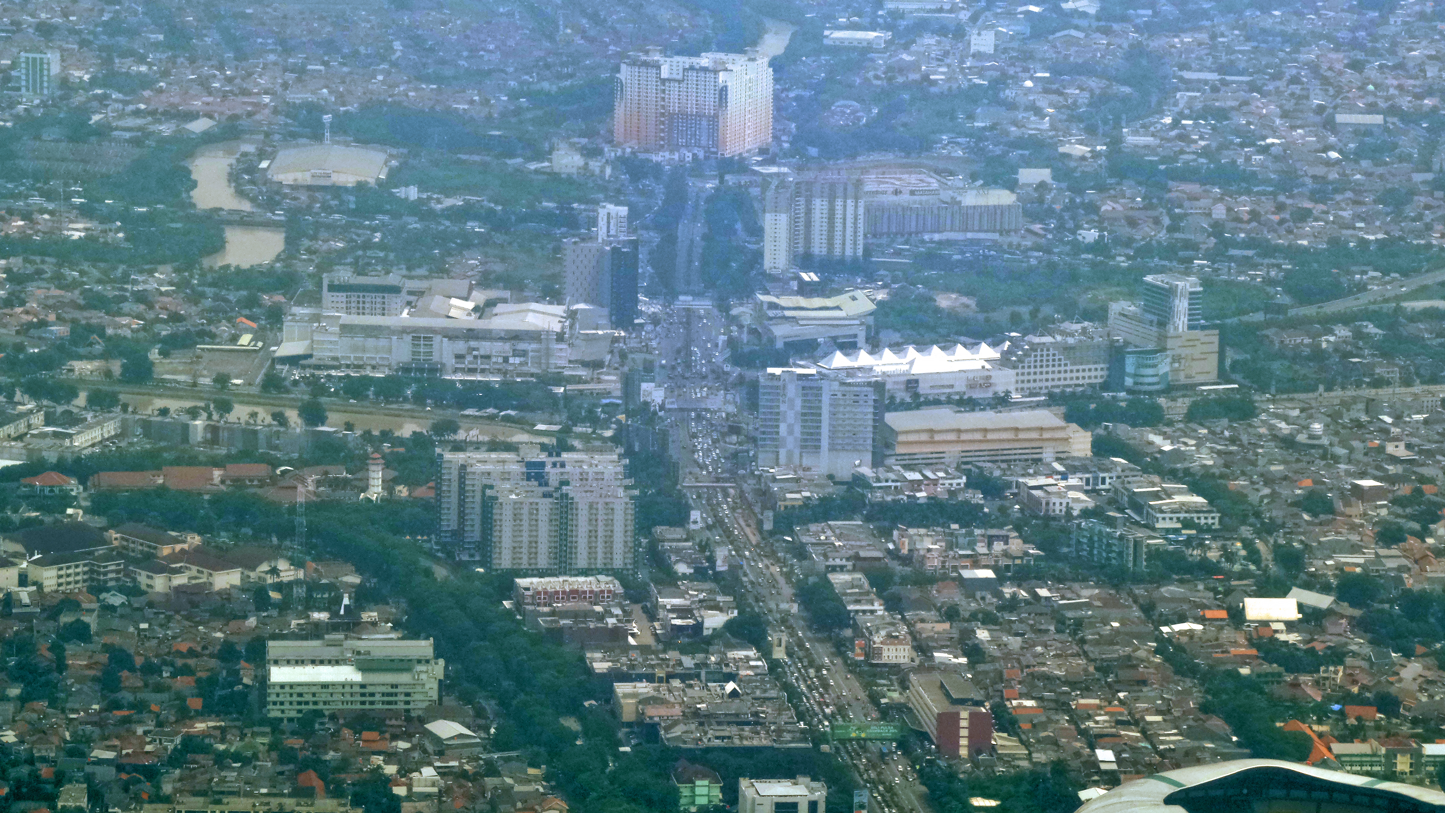 Aerial view of Bekasi. This is Jalan Jenderal Ahmad Yani - the city's major thoroughfare.